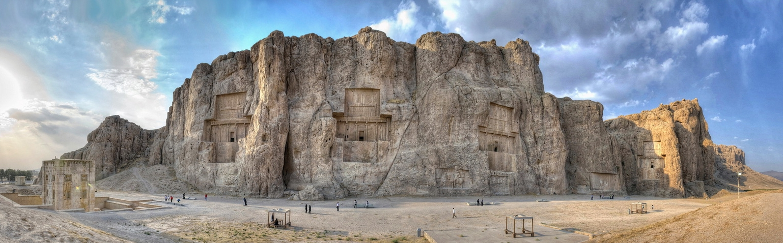 Naghshe Rostam in Persia (Iran)